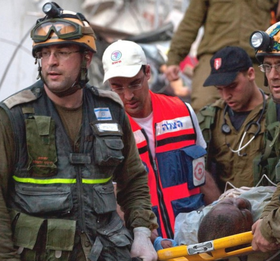 HAITIANS AND ISRAELI AID PORT-AU-PRINCE EARTHQUAKE